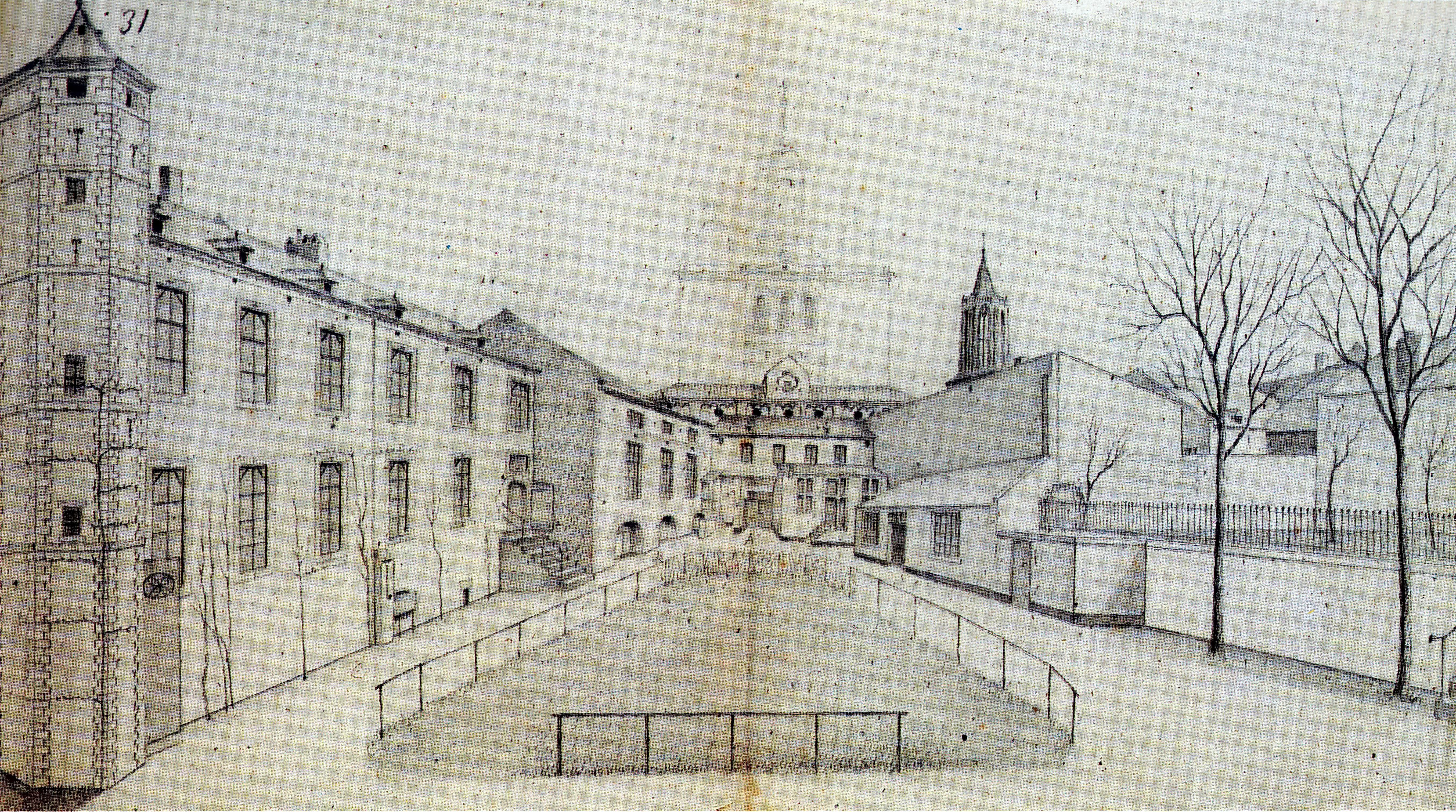 View of the offices of the provost ('proosdij') of Saint Servatius Church, Maastricht, the Netherlands. Drawing by J. Brabant, ca.1860.